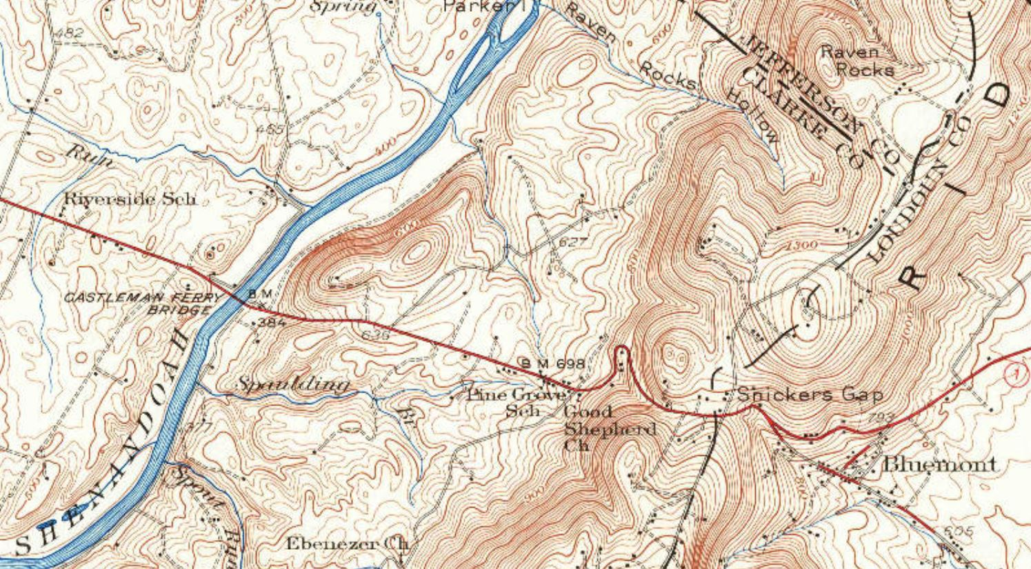 Map of topography in northern Virginia by the USGS 1944